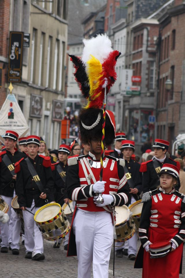 Belgian drum major